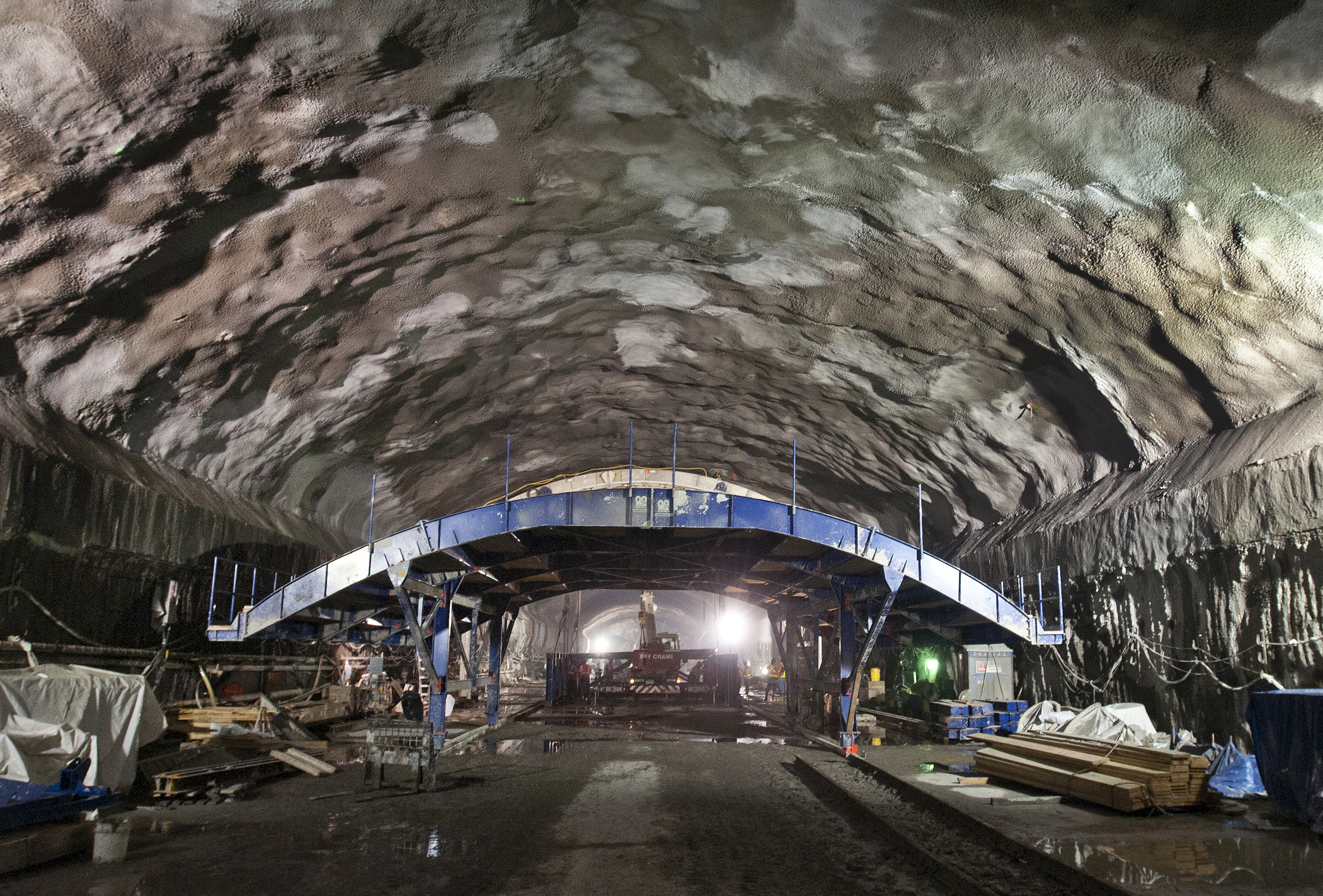 View of construction underway on September 19, 2011 for the caverns under Grand Central Terminal, New York City, that will eventually house platforms.